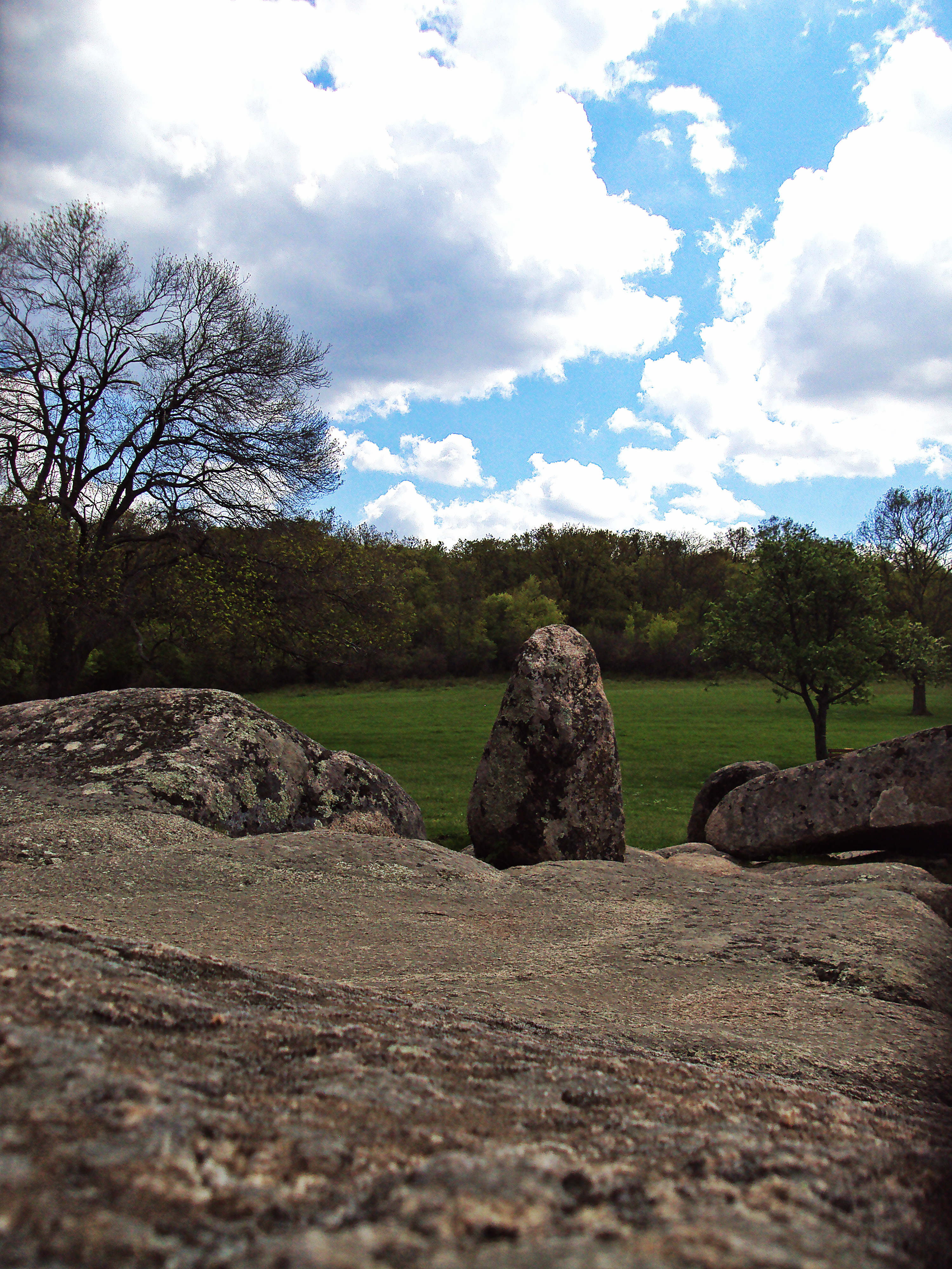 Menhir Begliktash BG